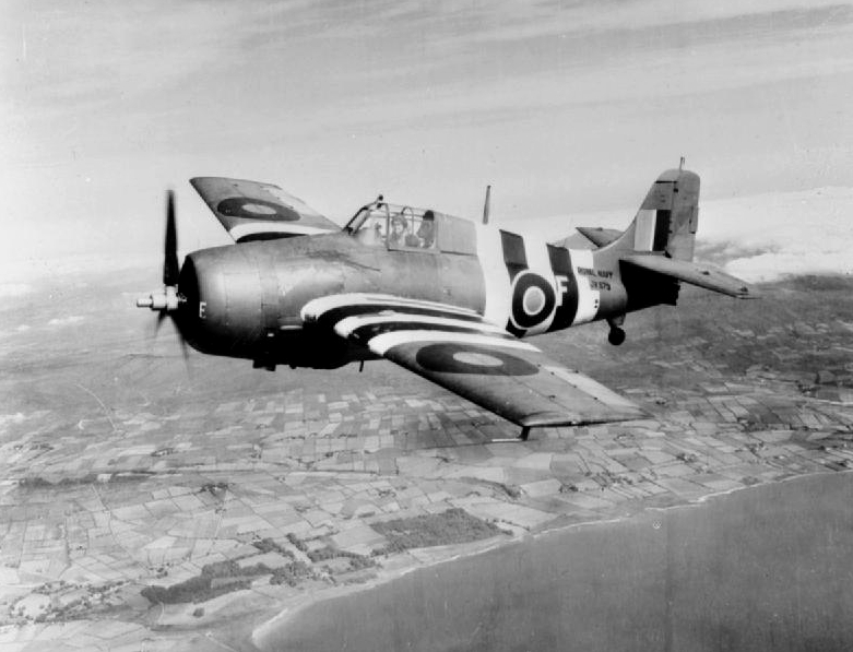 A Fleet Air Arm Grumman Wildcat of 846 Naval Air Squadron based at Eglington, Northern Ireland (UK), in flight over the coast. The aircraft displays the stripes carried by aircraft of the Allied Expeditionary Force during the Normandy landings.